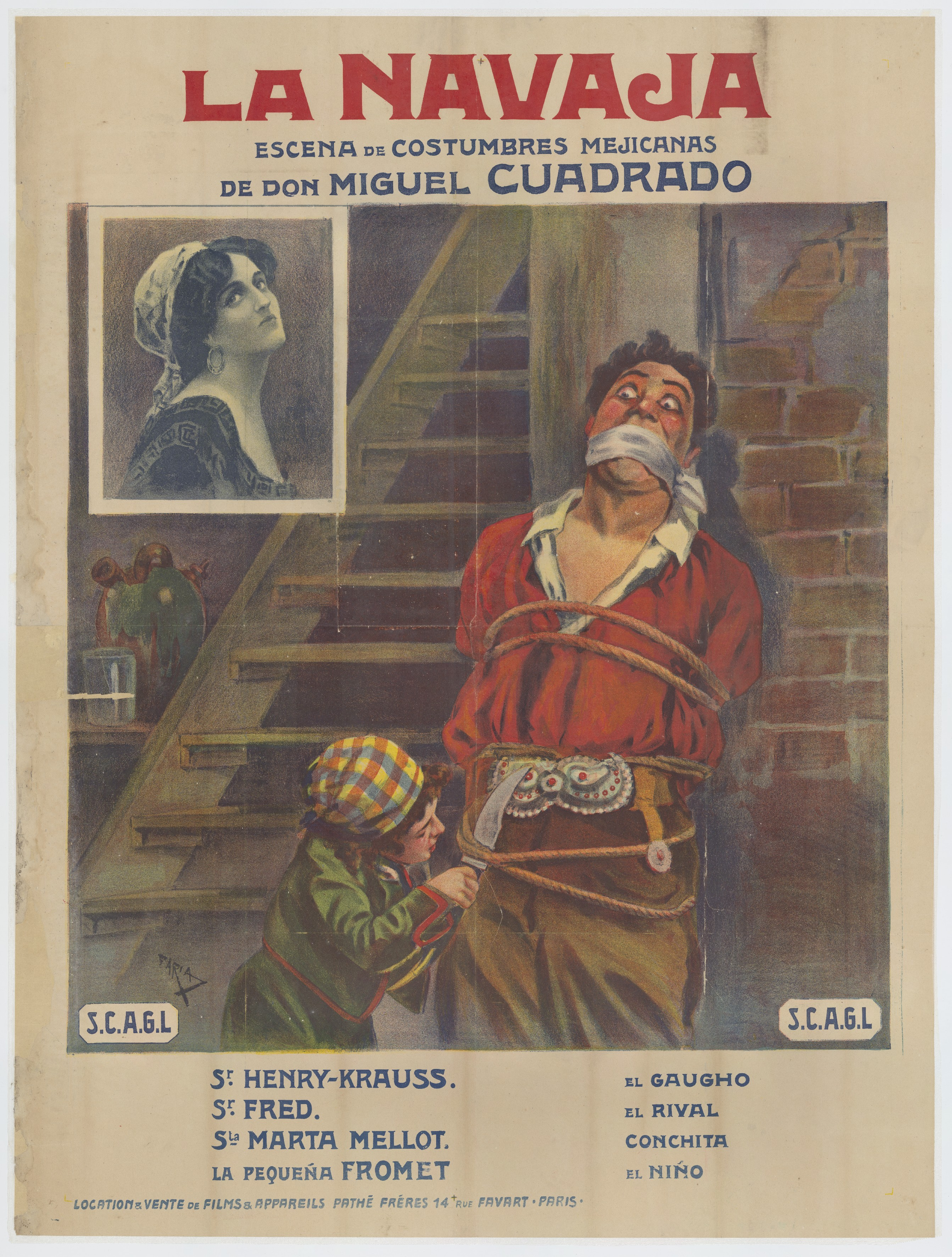 Poster for Pathé Frères (France). Film: Navaja, La (FR, Michel Carré, 1911, Pathé Frères - SCAGL)